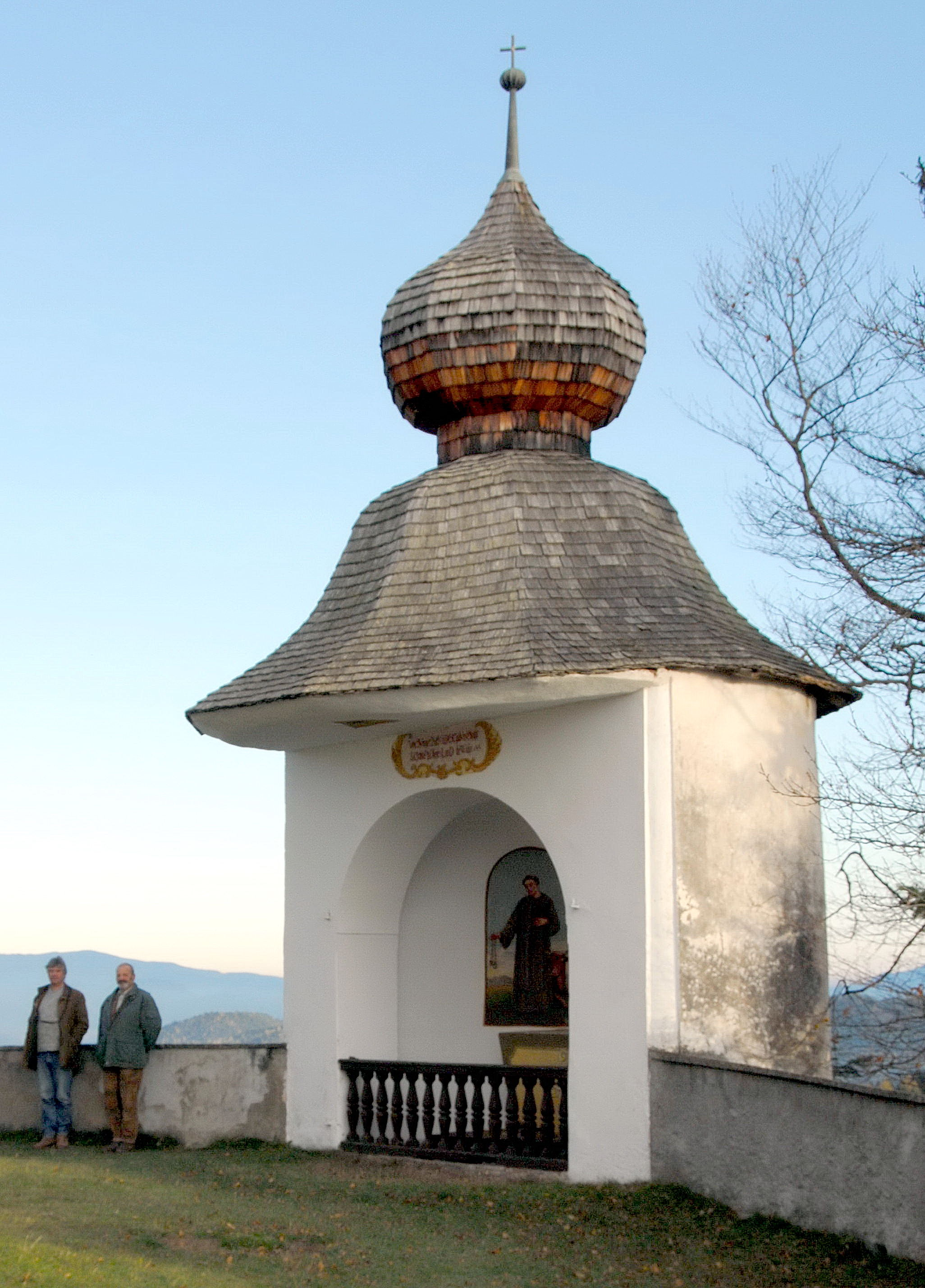 Chapel on the mountain of Christofberg in the community of Brueckl, Carinthia, Austria